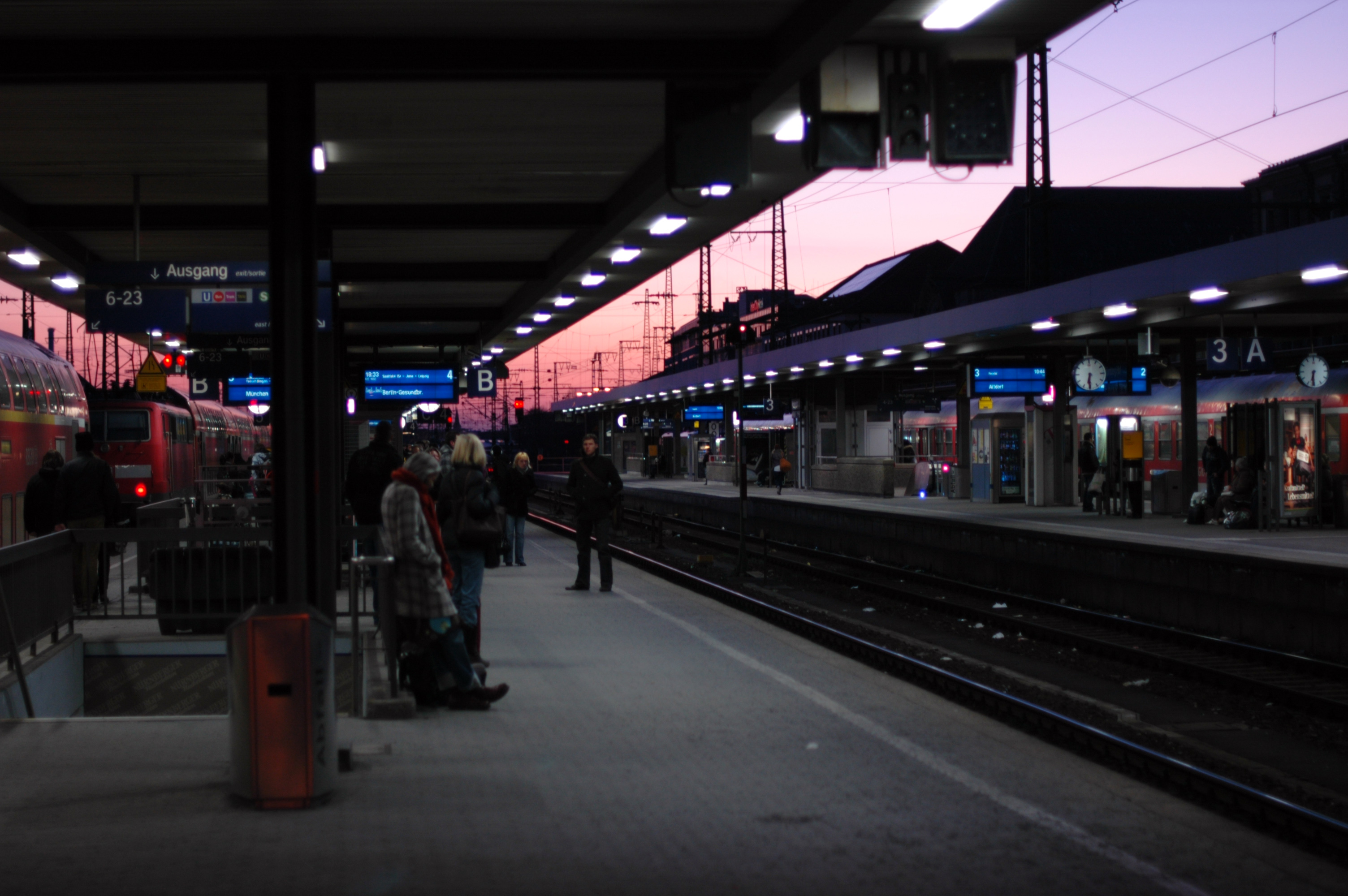 8. Fotoworkshop Nürnberg